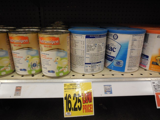 Nutramigen Baby Formula